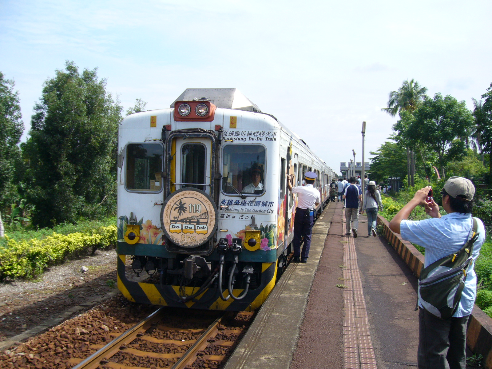 TRA Tze-Chang Train stopping at Jhutian Station, Jhutian, Pingtung County, Taiwan.